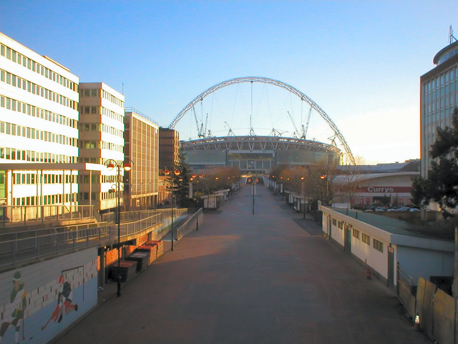 The second Wembley Stadium, looking down Wembley Way, in the middle of construction. The stadium was opened in 2007.